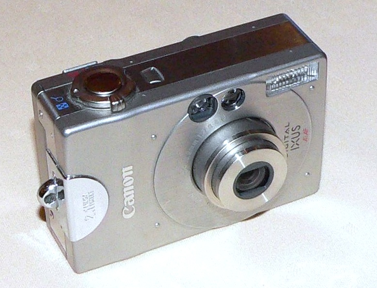 Canon IXUS digital camera, front 3/4 view, operating.